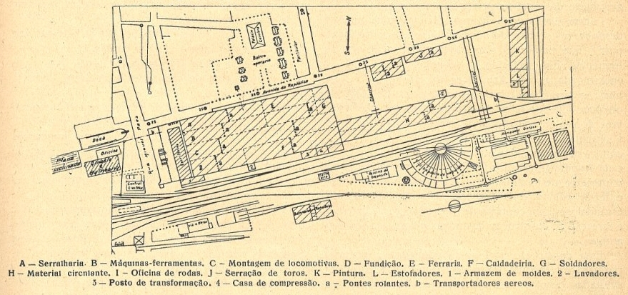 Map of the new railway works on Barreiro, Portugal. This image was published in the Gazeta dos Caminhos de Ferro magazine No. 1122, of 16th September 1934, and scanned by the Hemeroteca Municipal de Lisboa.